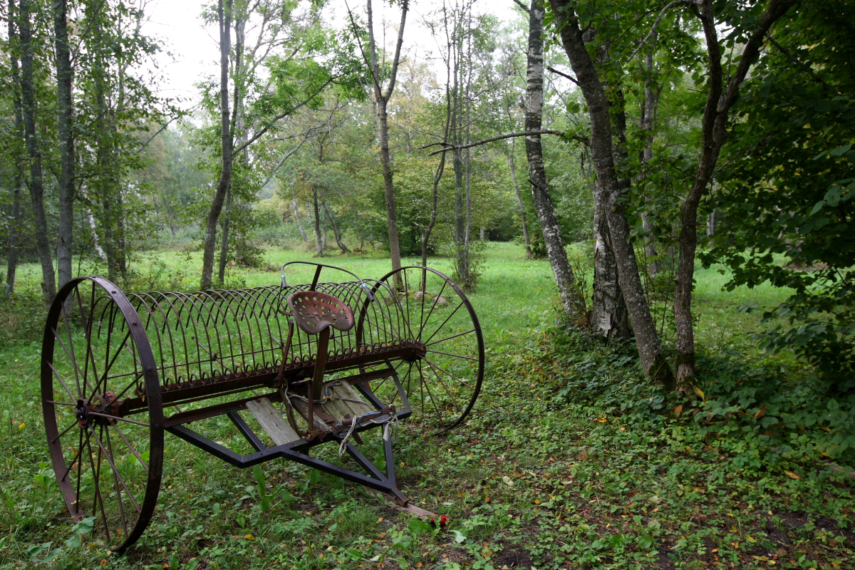 Laelatu, Lääne County, Estonia